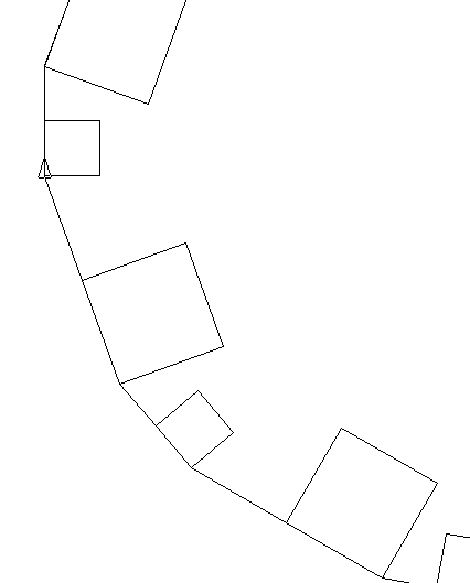 Using a function call to draw chair 9 times with UBCLogo, on FreeBSD 6.1. Screenshot taken without window border and is a section of the full drawn picture.